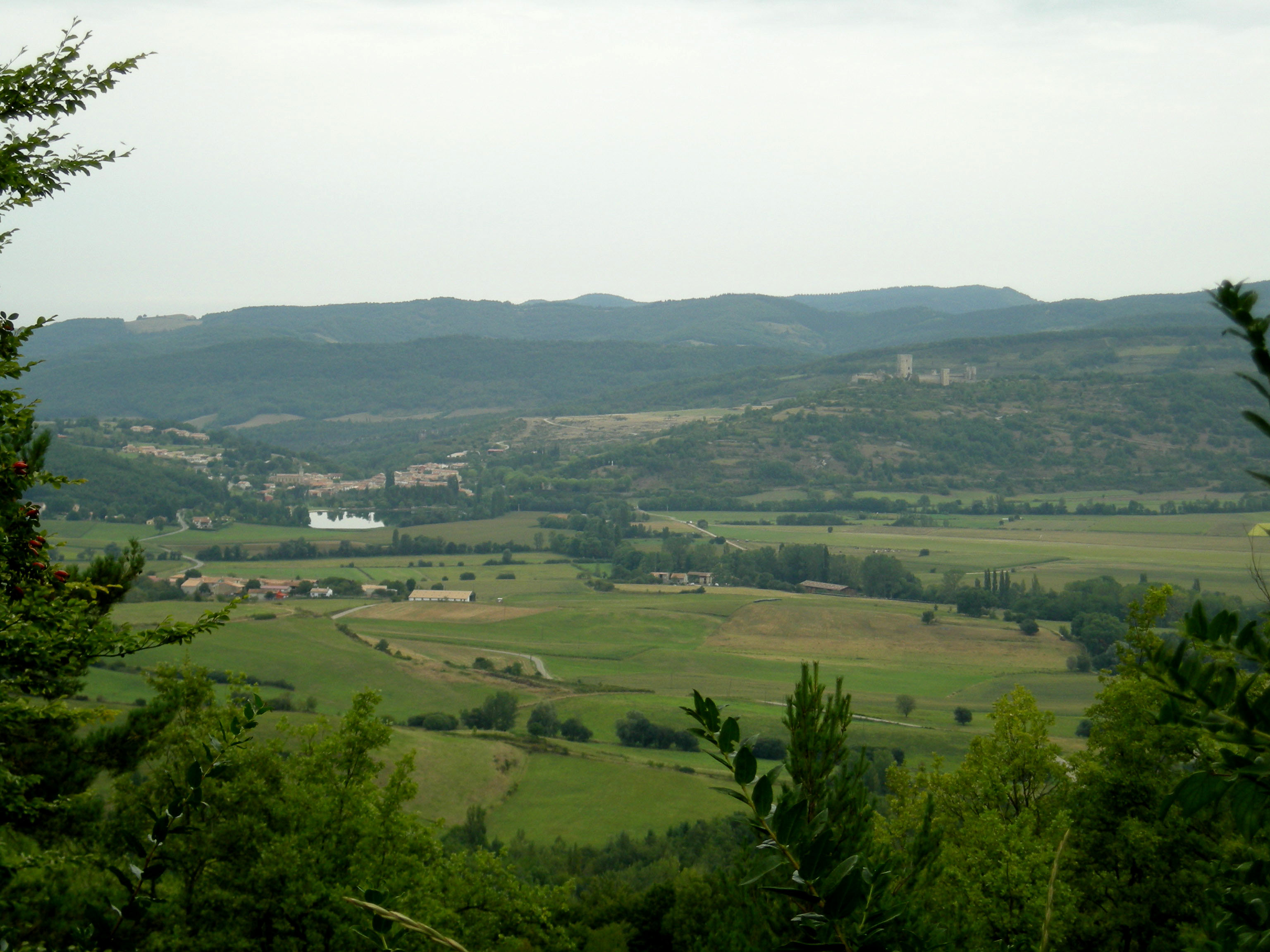 View of Puivert (Aude) : village, lake, castle